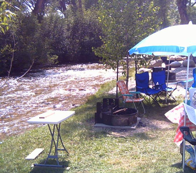 Camping along Chalk Creek at a local campground. Taken 2008.